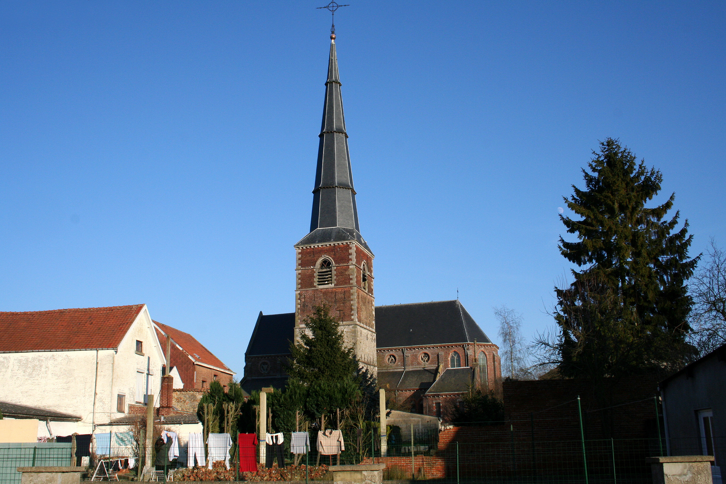 Grand-Reng (Belgium), Holy Virgin church.